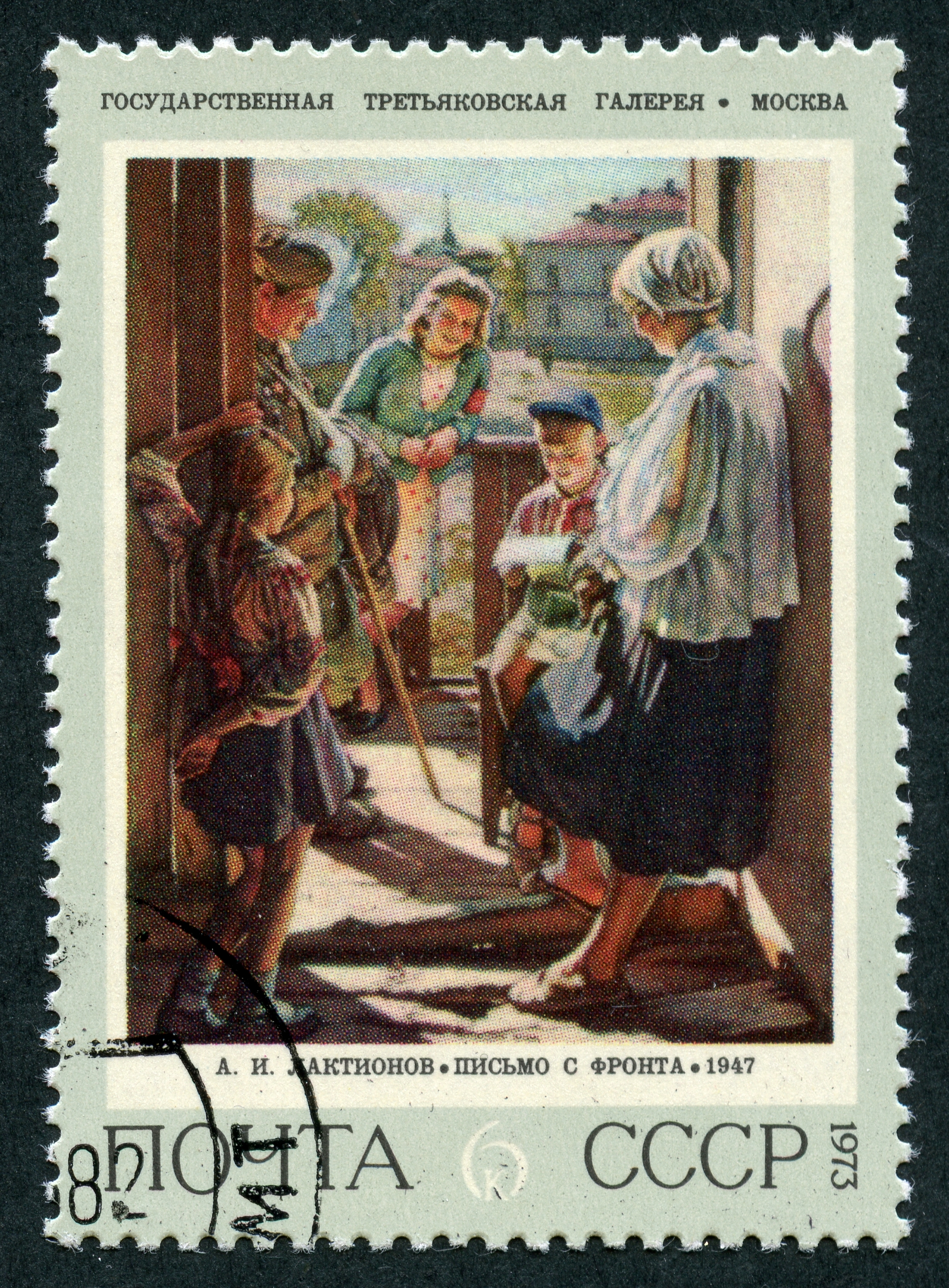 A USSR stamp of 1973 from the series "History of Soviet Art"; painting "A letter from the front" (1947) by Aleksandr I. Laktionov